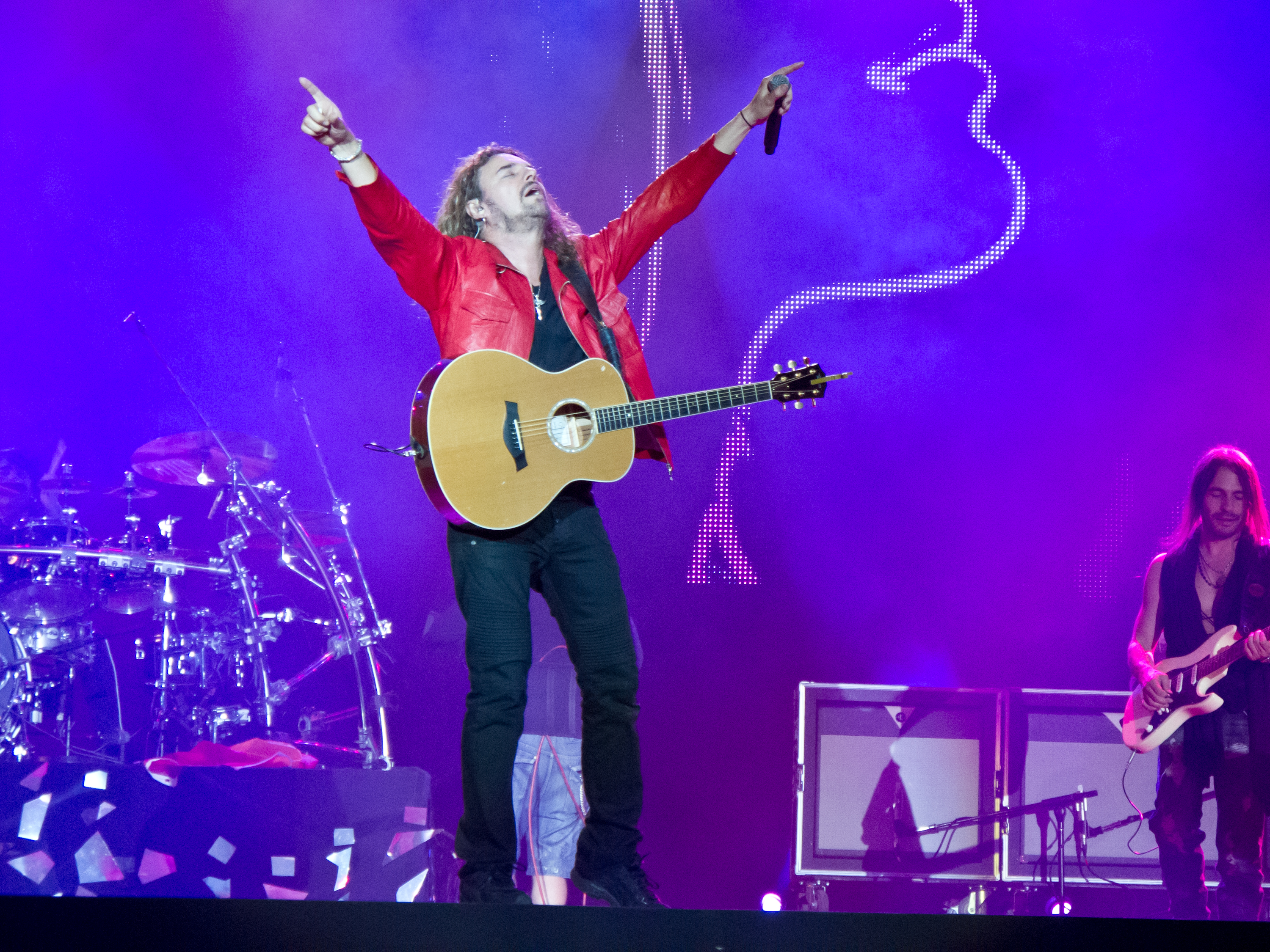 Maná in concert in Rock in Rio in Madrid in 2012.